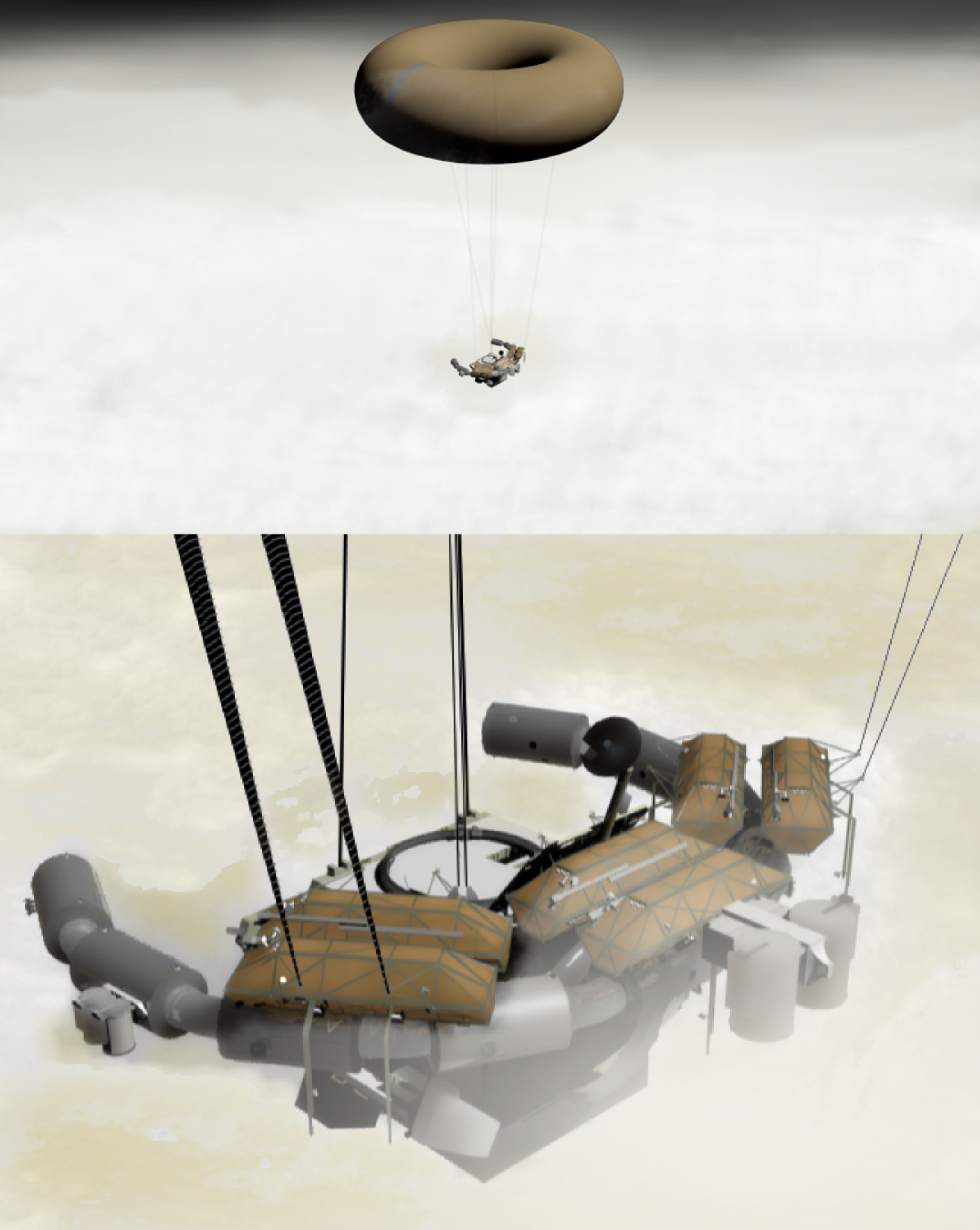 Hypothetical prototype floating outpost studying colonization of Venus around 40 km above the surface supported by tori full of hydrogen and oxygen. Shielding against CMEs is provided by a retractable mylar/kevlar/aluminum dish and shelter compartments surrounded by water x. It can be also be combined with oxygen to generate water and power. During the waste cycle, dirty water is exposed to solar UV radiation which separates the hydrogen and oxygen molecules to restart the cycle. Visible at the top-right, sunshine reflecting from Earth and the Moon.